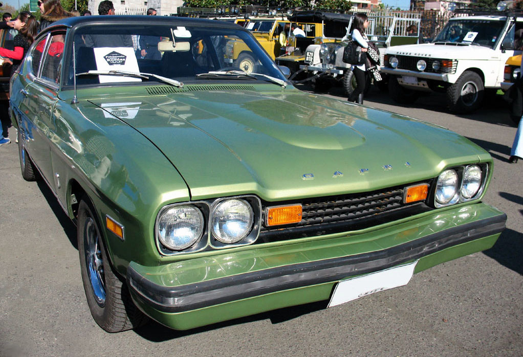 Mercury Capri V6 2800 1975, US-market version sold by Mercury dealers spotted in Chile